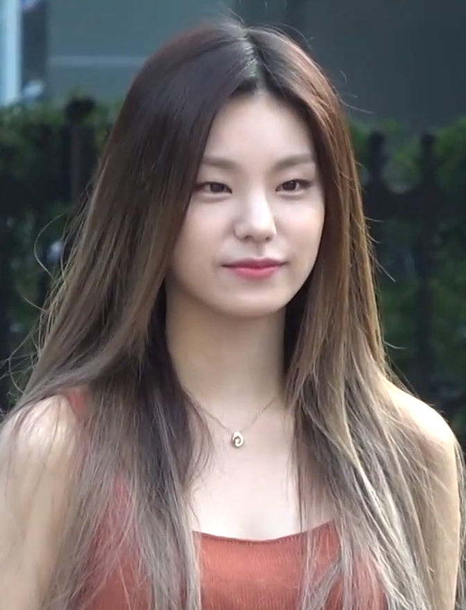 Hwang Ye-ji going to a Music Bank recording on August 8, 2019.